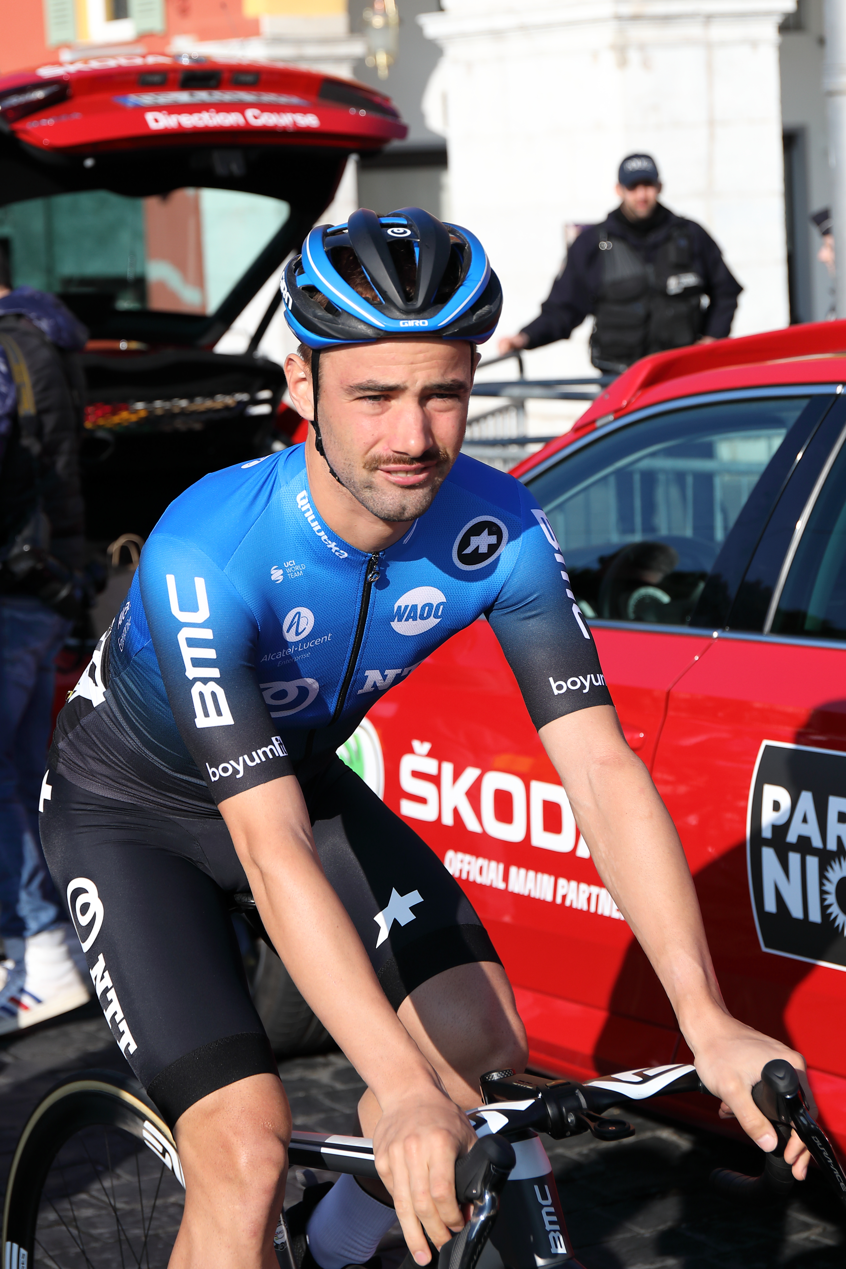 Belgian cyclist Victor Campenaerts in Nice at the start of the 7th stage of the 2020 Paris-Nice